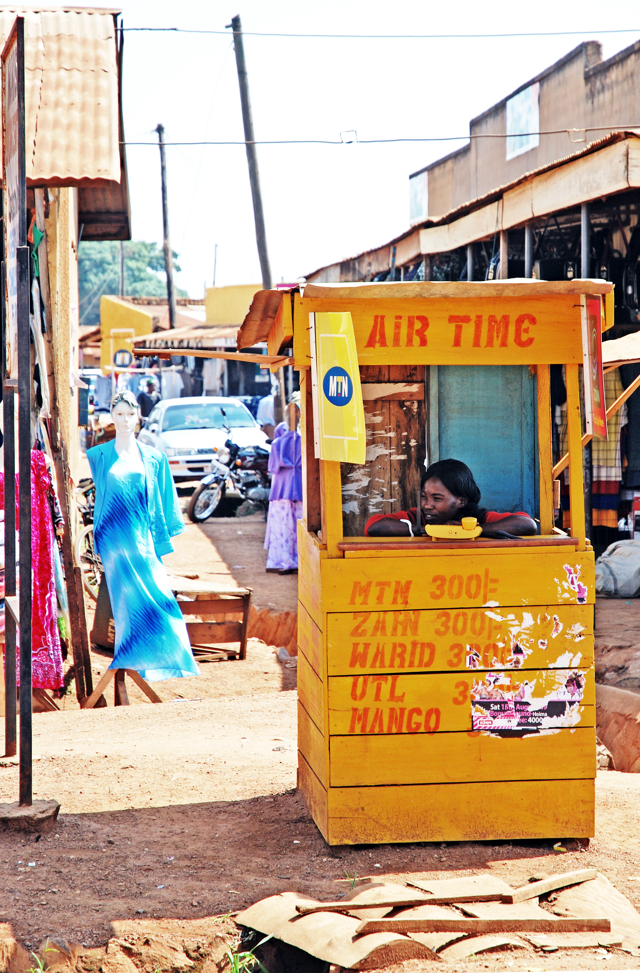 An MTN-operated, GSM-based public phone (also known as "mobile telephone booth") in Uganda.